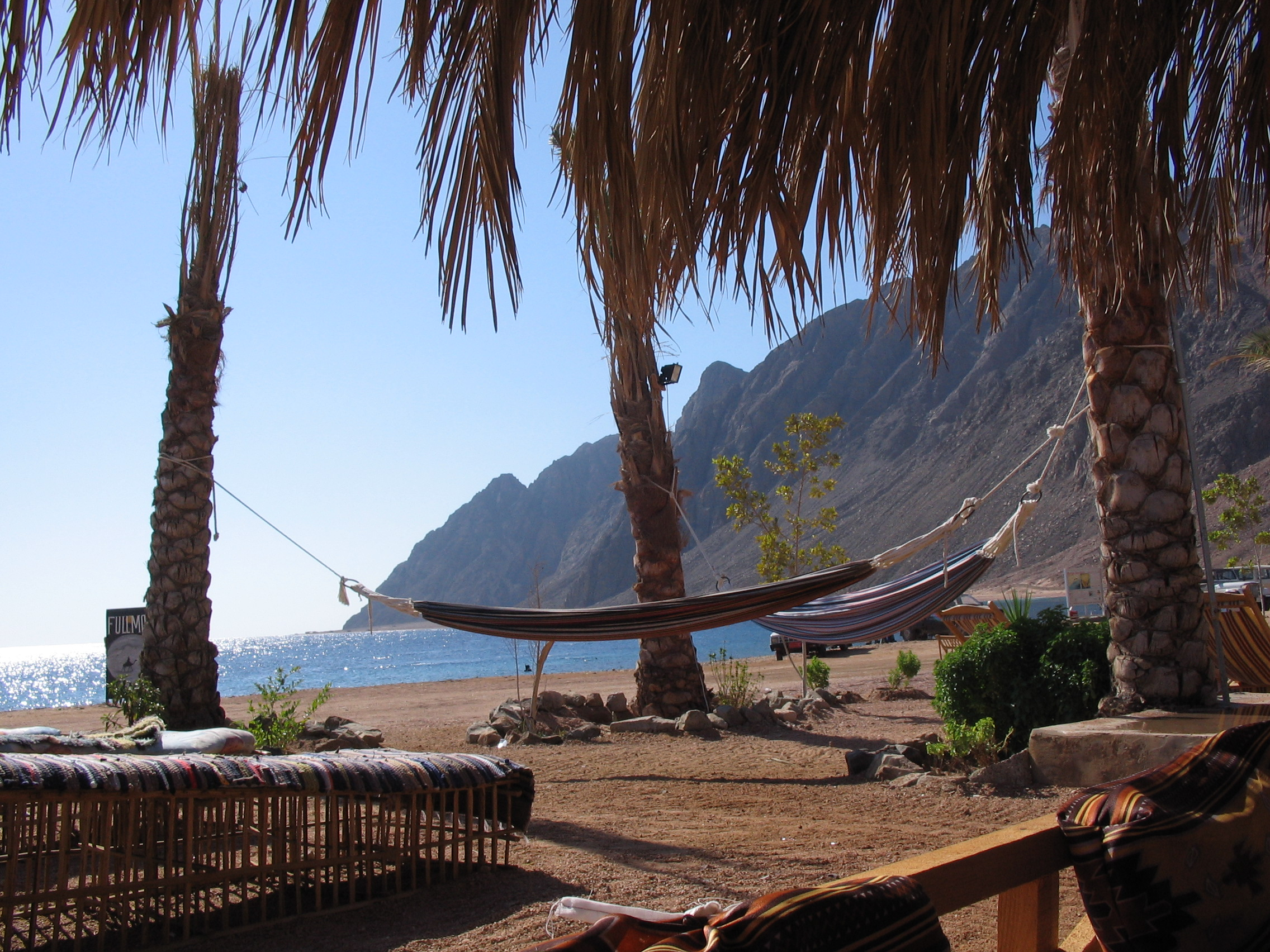 Dahab, Sinai, Egypt: The Sinai is one of the most bewitching places on earth. It is vast, barren for the most part, very colorful near the aptly named Colorful Canyons, and then has some great beaches on the Gulf of Aquaba. The beaches have resorts that cater to a wide variety of budgets. If I recall correctly, I stayed at one place in Dahab for about USD 20 a night. Snorkeling and Scuba diving are very popular here.